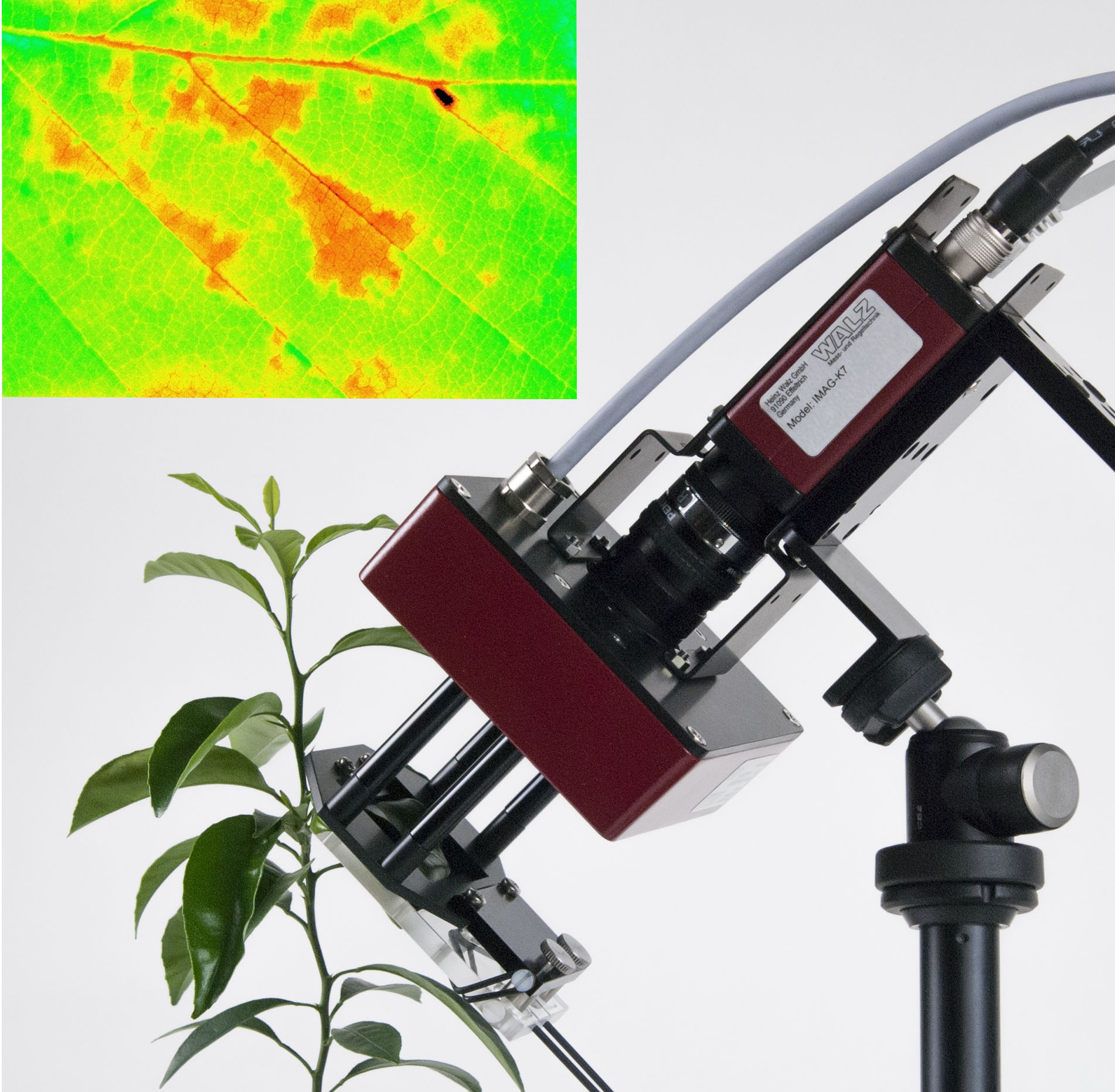 Fluorescence image (Ft value) of adaxial leaf surface (32 x 24 mm) measured with IMAGING-PAM Chlorophyll fluorometer.